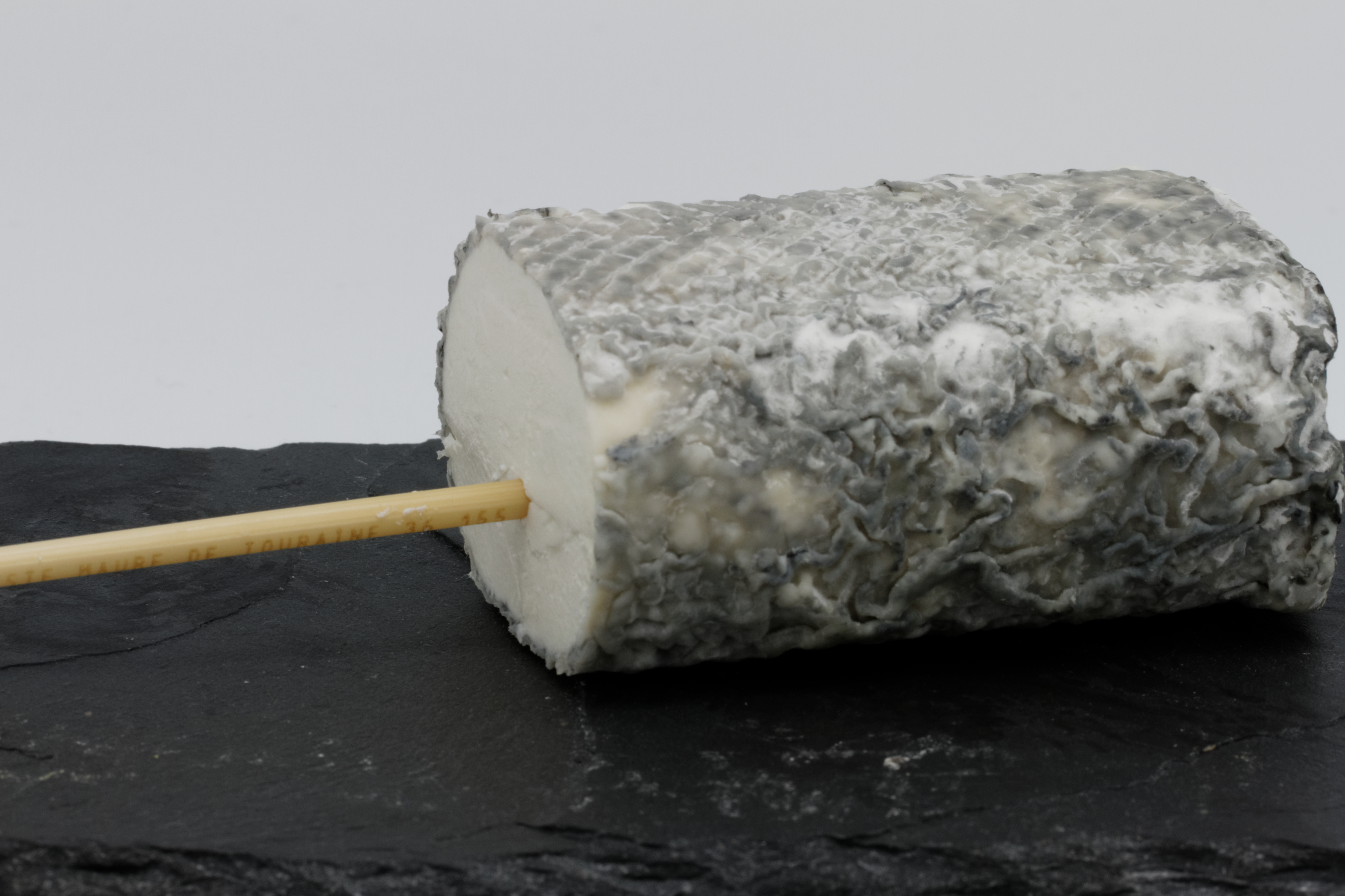 Sainte-Maure de touraine (goat's milk cheese)